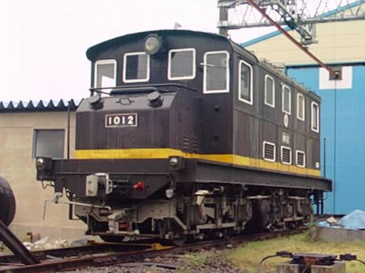 Electric locomotive of Odakyu Electric Railway co. ED1012